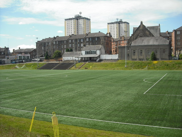 Lesser HampdenIn the shadow of Hampden Park, used by Queen's Park youth teams.